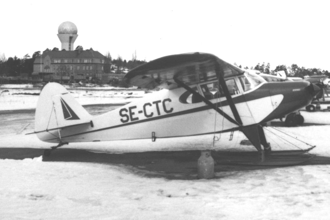 Piper PA-20 Pacer SE-CTC on skis at Stockholm (Bromma) airport